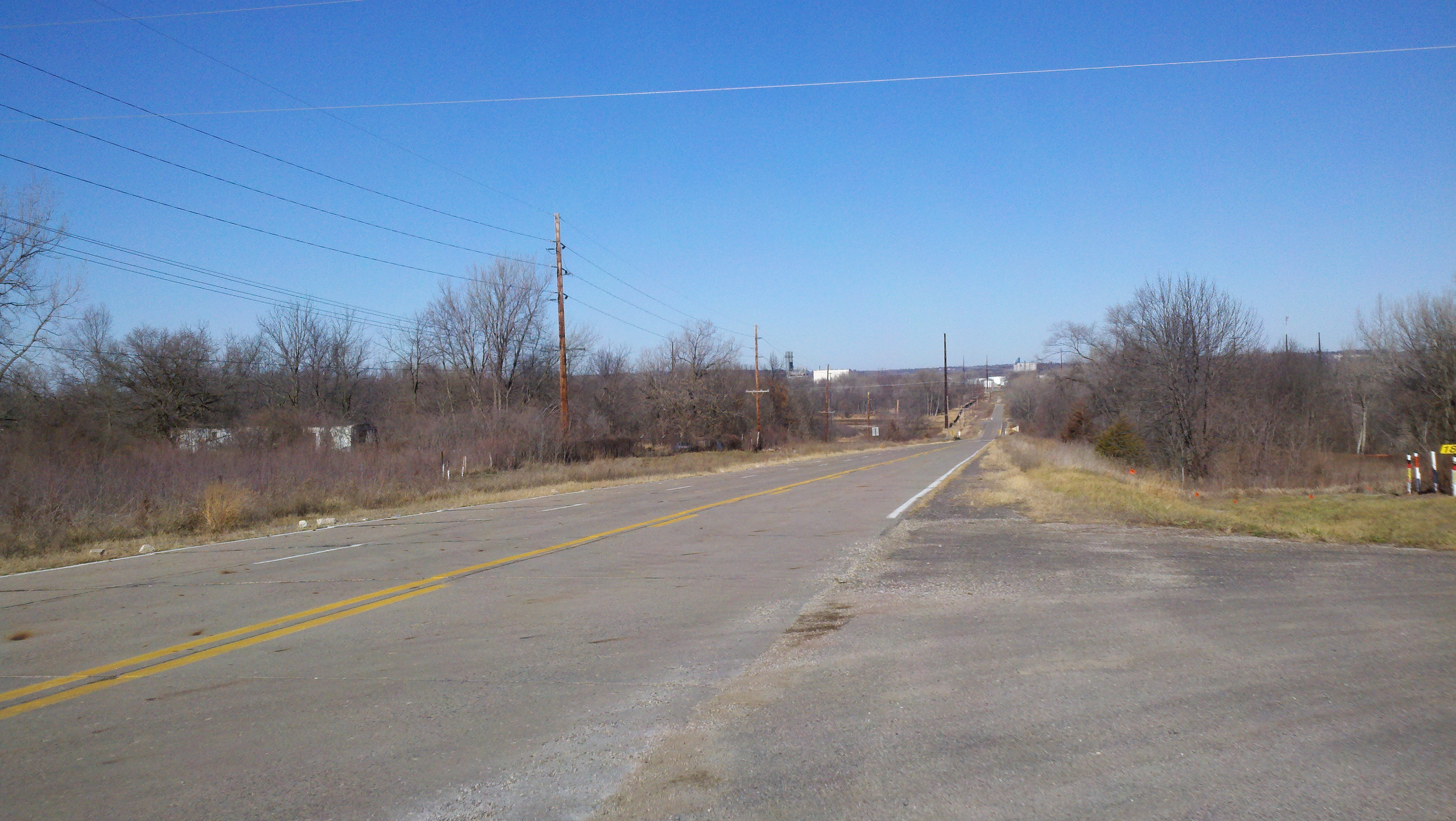 Looking north along old Iowa 46 near Avon